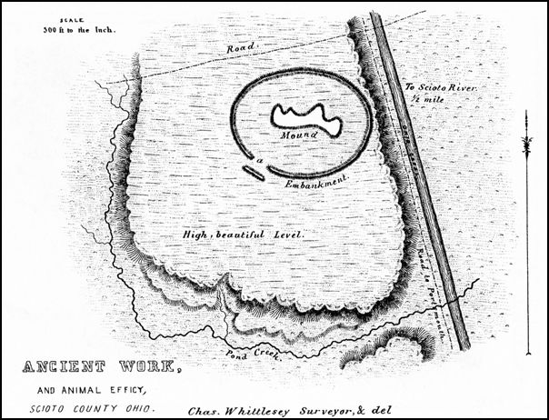 A map of the Tremper Mound and Earthworks near Portsmouth, Ohio